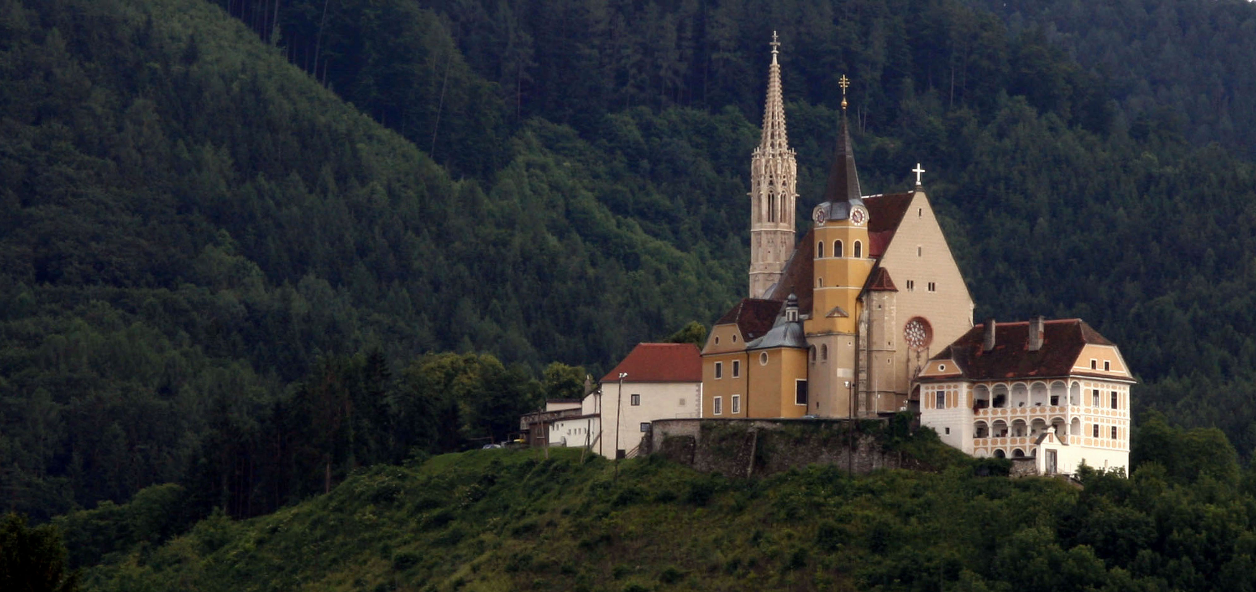 Pilgrimage Church Maria Straßengel, Styria, Austria